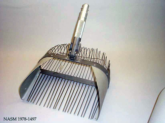 Lunar rake